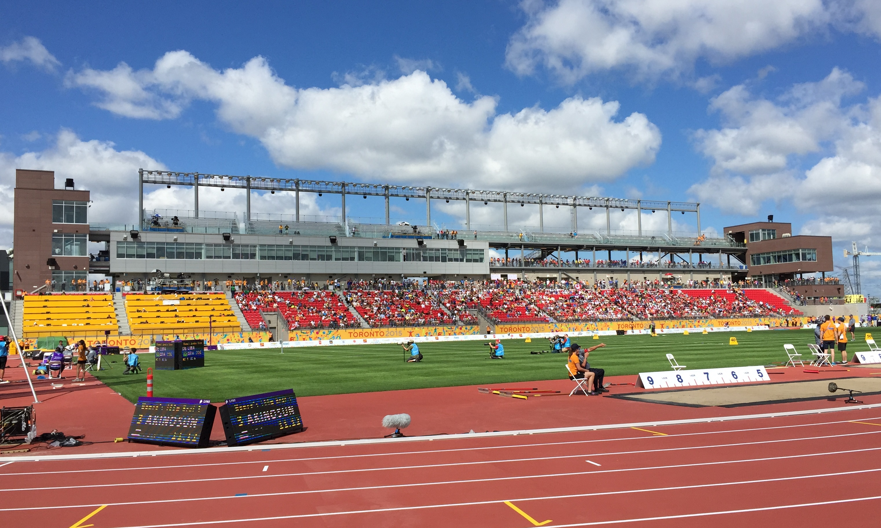 Opening day of York Lions Stadium on the first day of the athletics competition at the 2015 Pan American Games